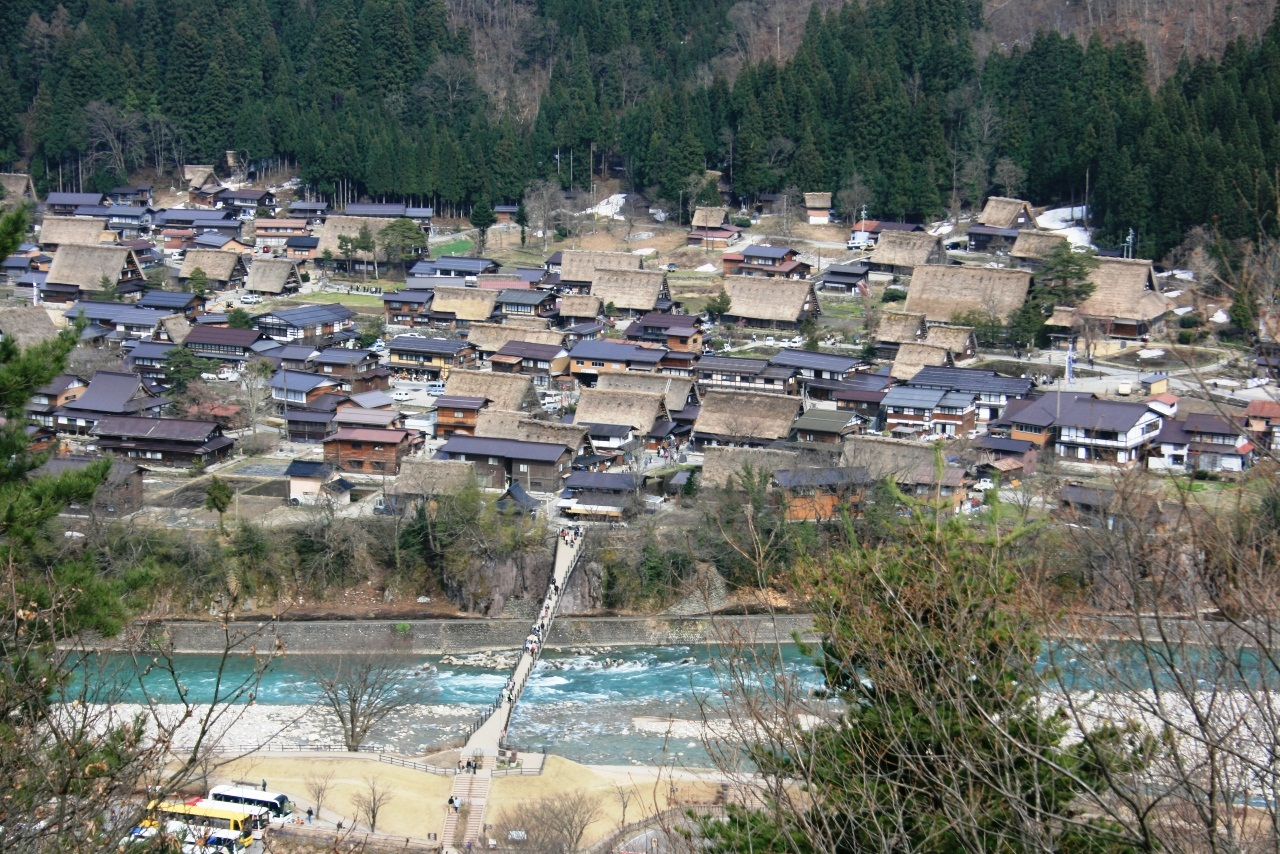 Shirakawago_and Shō River